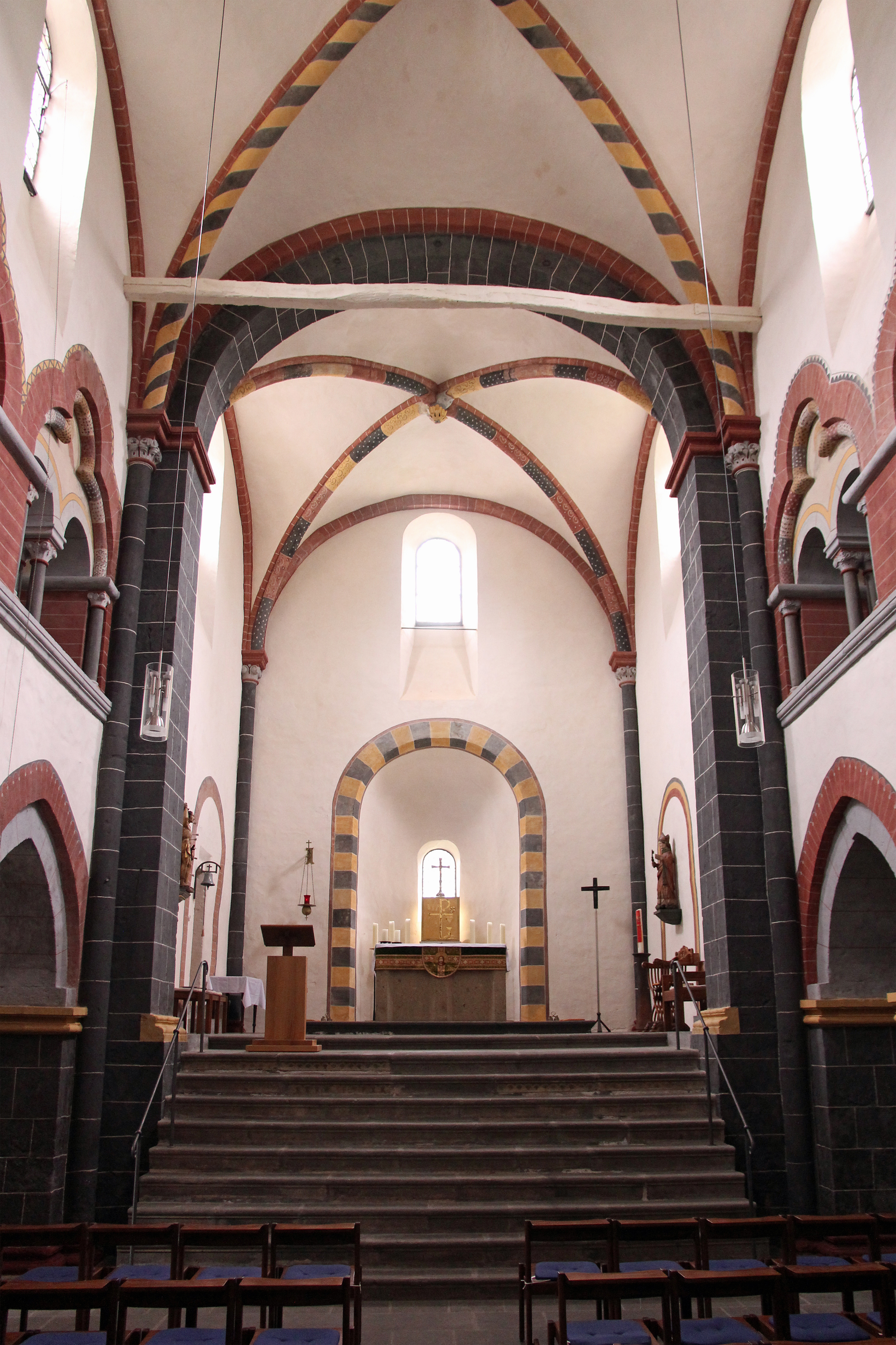 Old-St. Servatius church in Koblenz